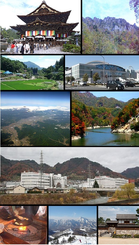 Nagano montages